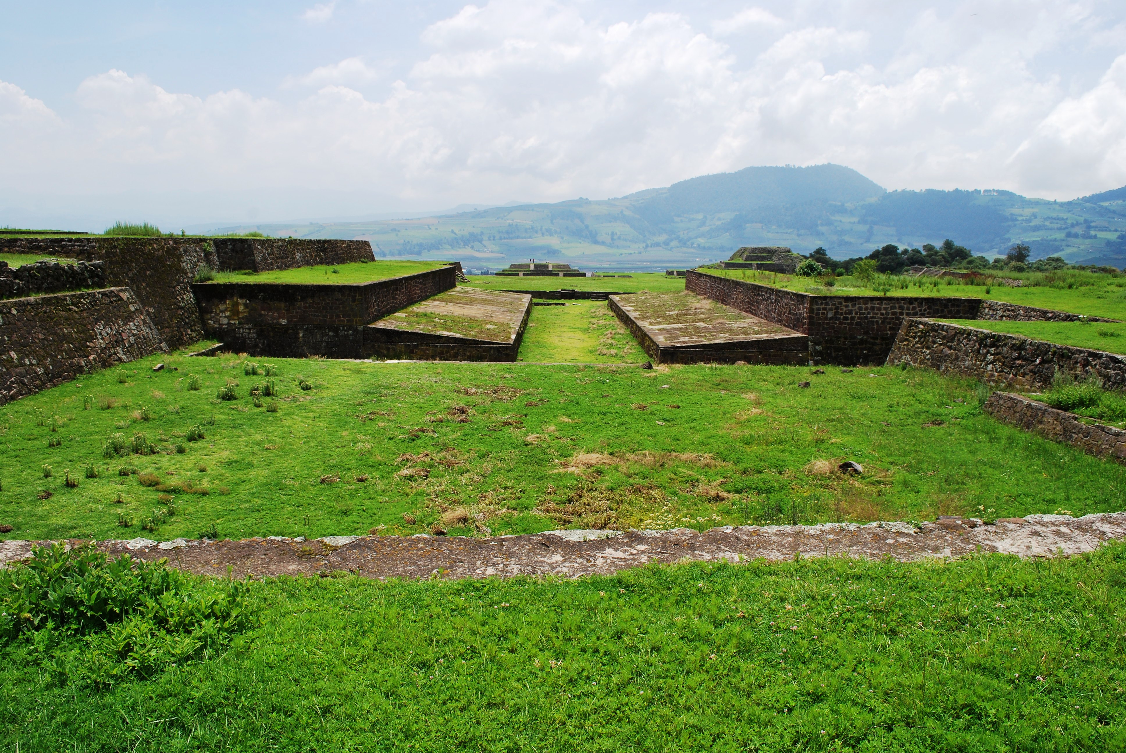 Ballcourt (Conjunto D) as viewed from west at Teotenango, Tenango del Valle, Mexico State